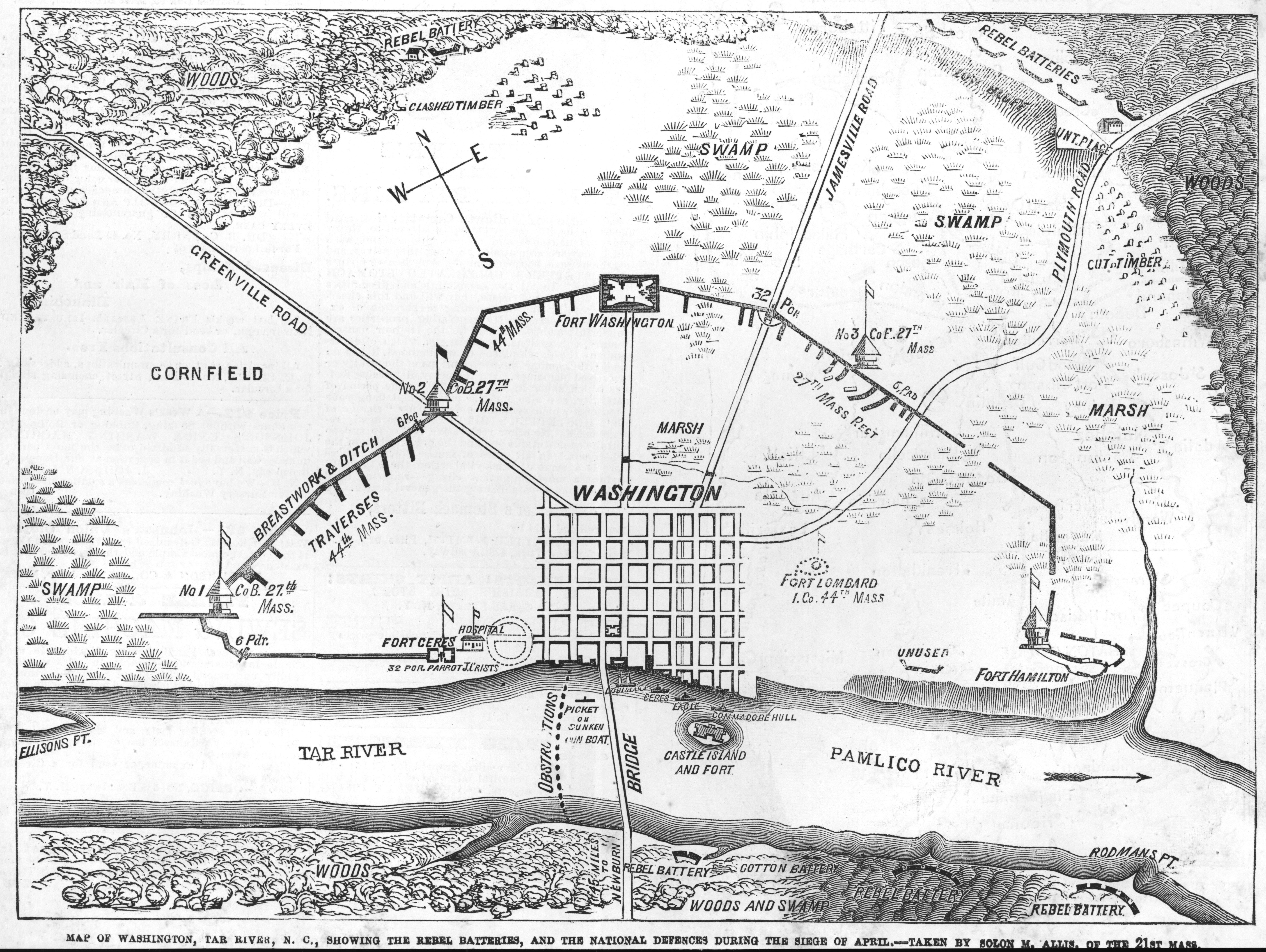 Original Prints